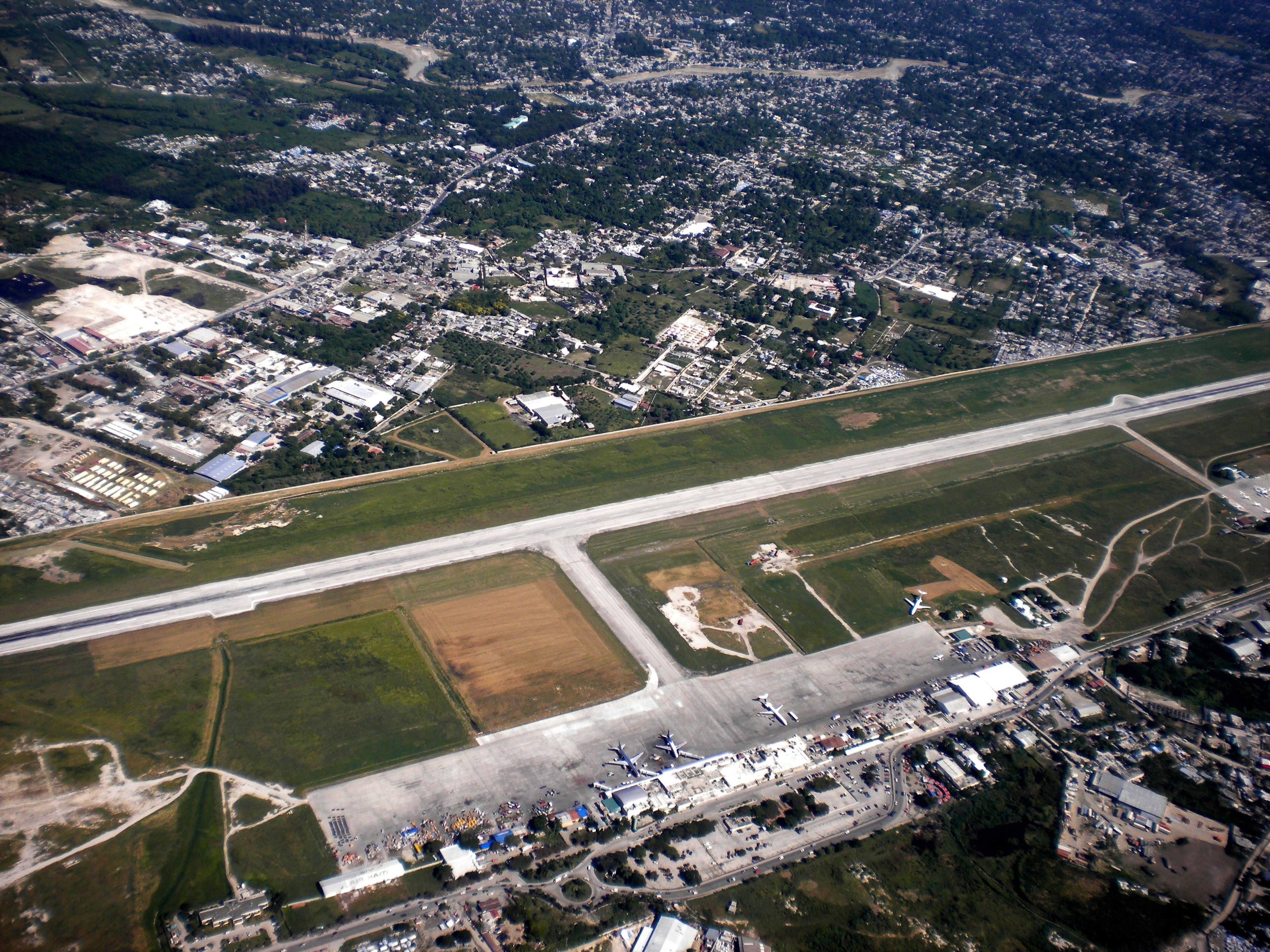 Port-au-prince International Airport aerial view